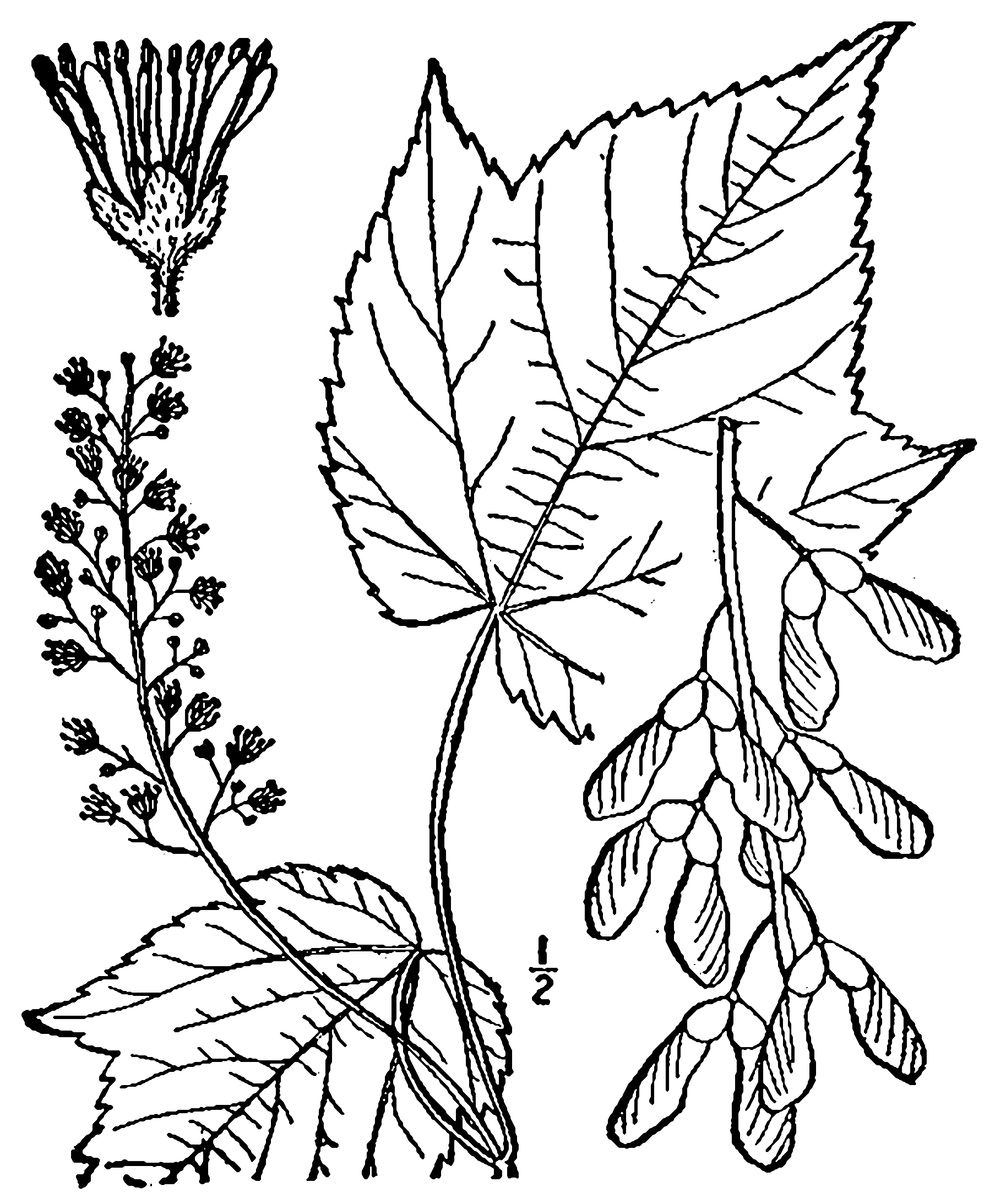 Mountain Maple. Drawing.